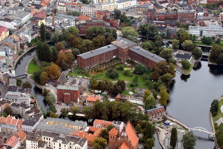 Mill Island Bydgoszcz bird eye view